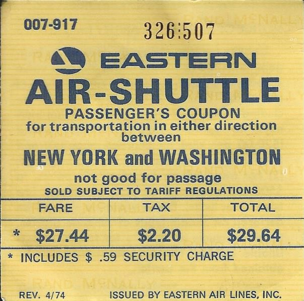 Eastern Air Shuttle ticket remainder for flight from New York LaGuardia to Washington National. Date c. 1975-77.